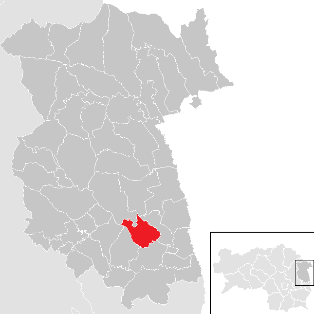 District Hartberg, Styria